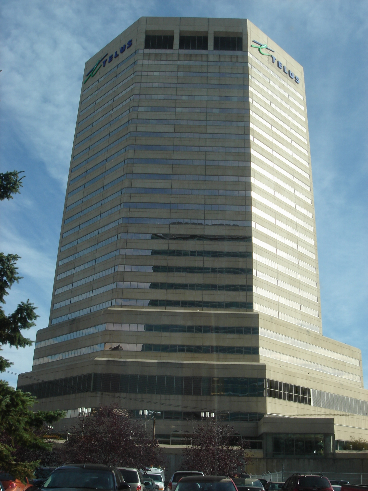 Telus Building Calgary, Alberta, Canada5th Avenue & 1st Street S.E.